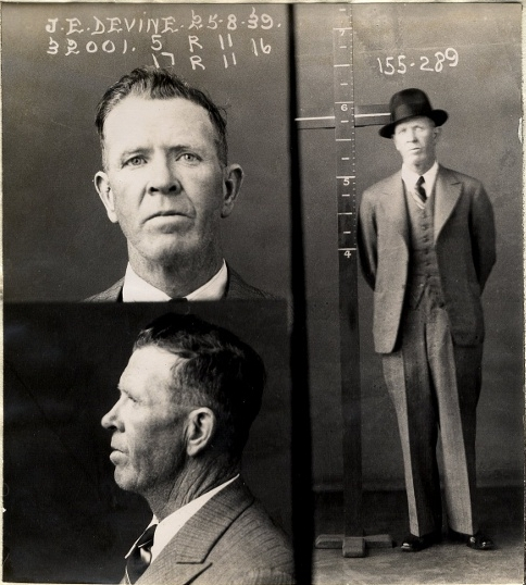 James Devine, husband of Tilly Devine